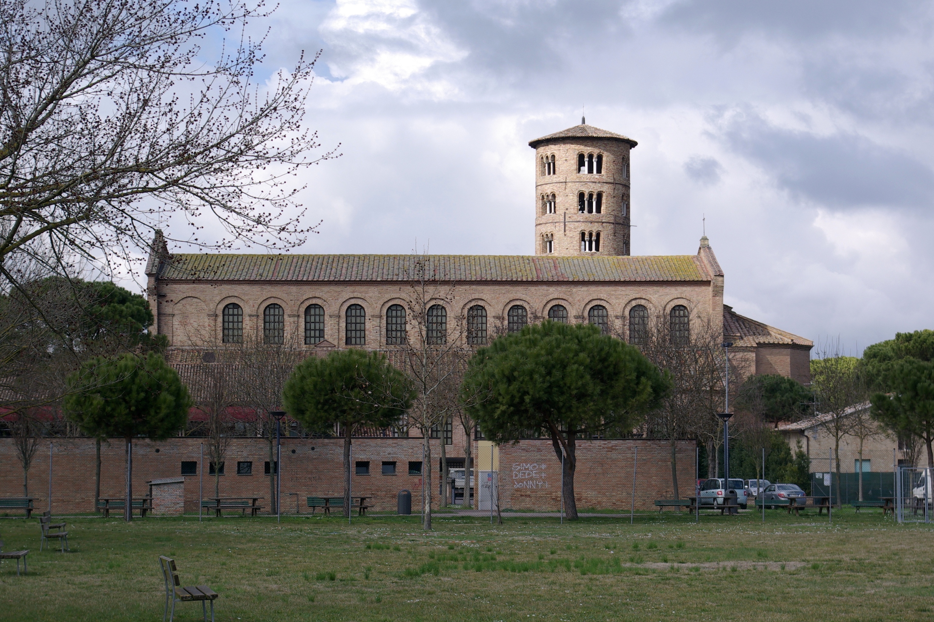 TheBasilica of Sant'Apollinare in Classe in Ravenna, Italy.